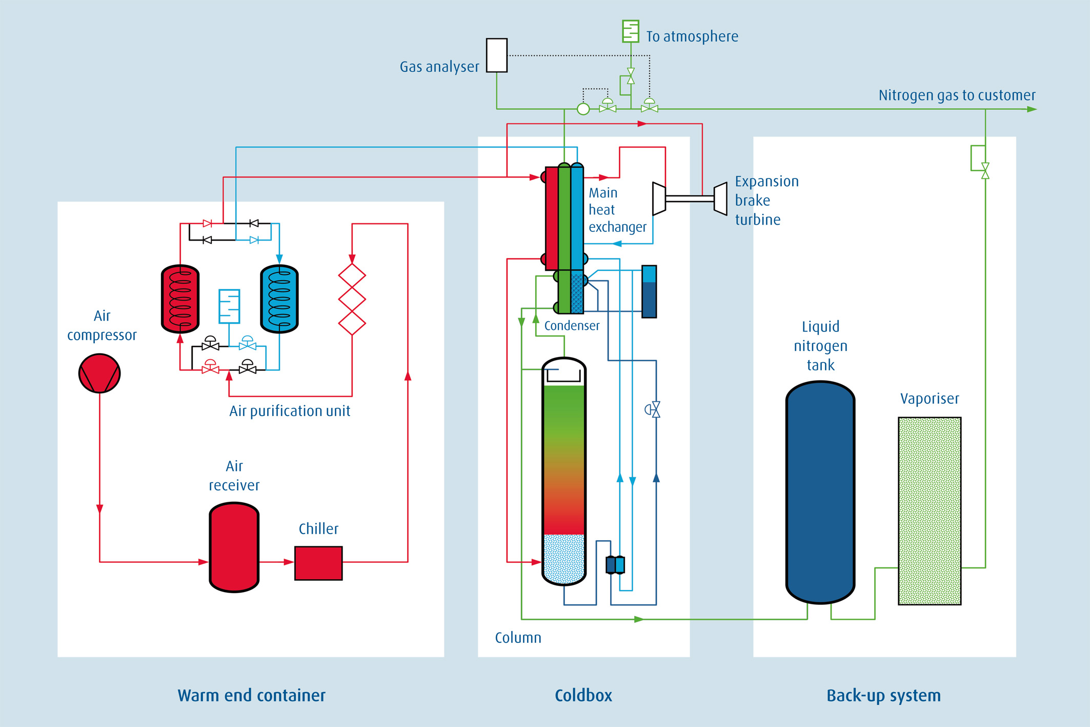 Basic scheme of a GAN Plant by Linde CryoPlants Ltd.